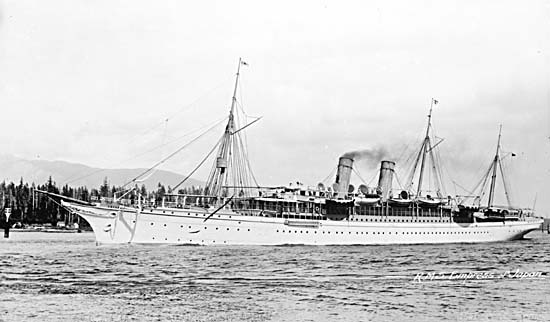 RMS Empress of Japan, c.1894